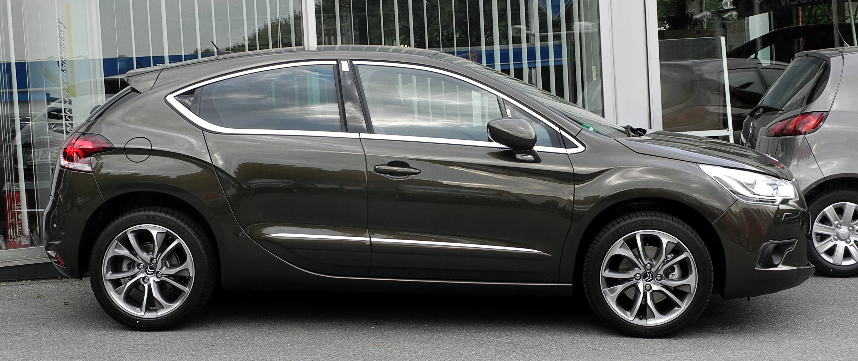 Citroën DS4 HDi 165 SportChic